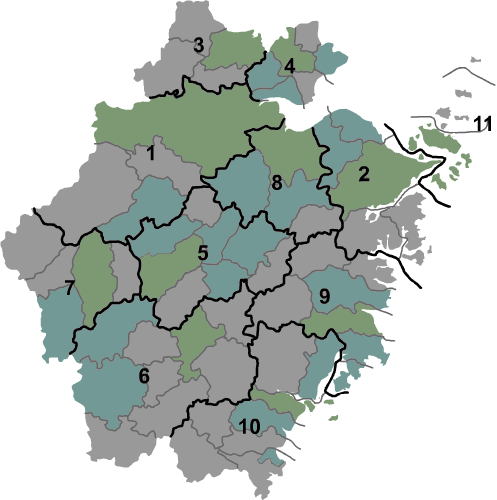 Map of prefectures of Zhejiang Province